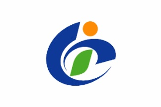 Flag of Sosa Chiba